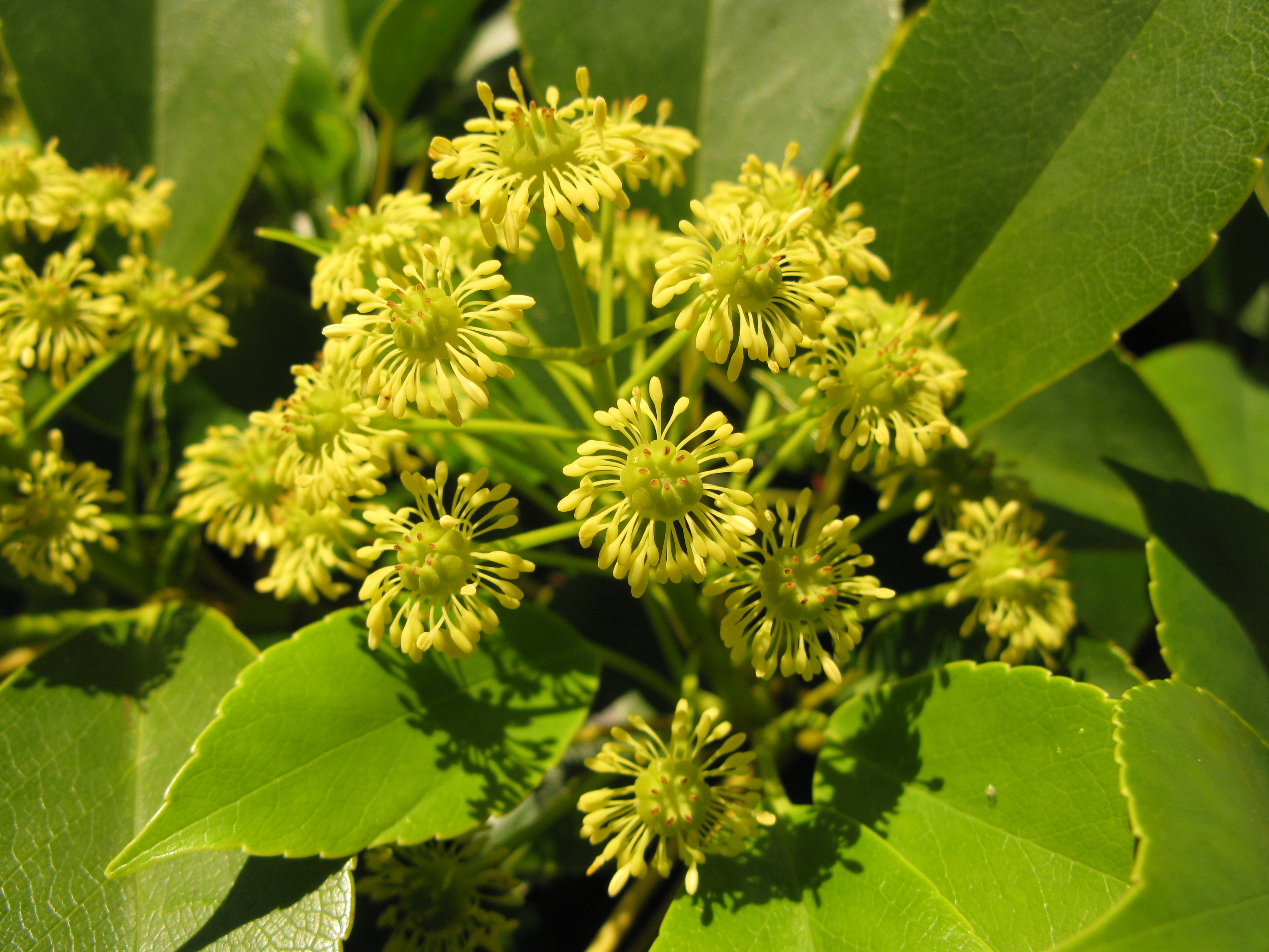 Trochodendron aralioides,Flowers,Aizu area,Fukushima pref.,Japan